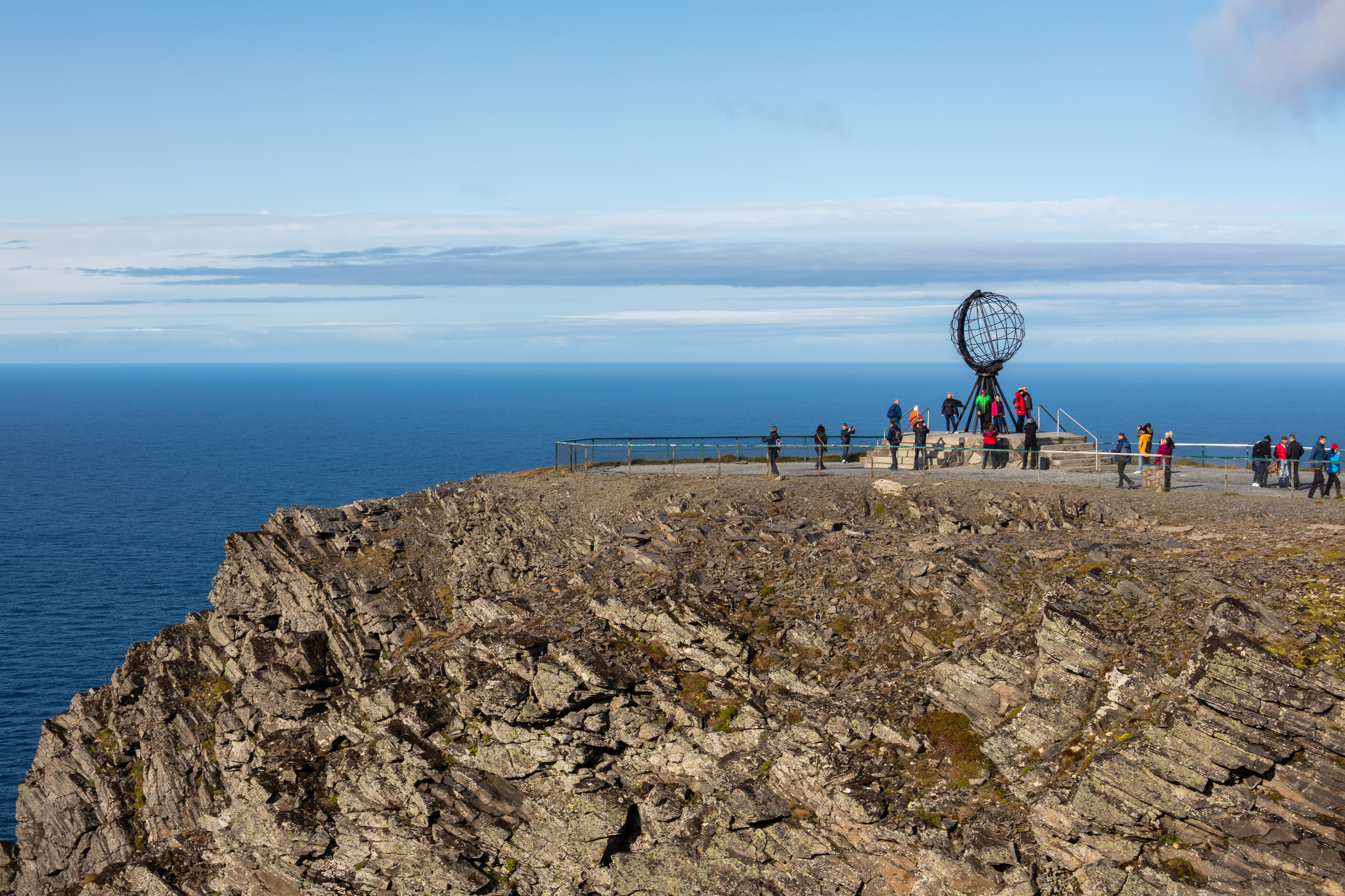 North Cape, Norway